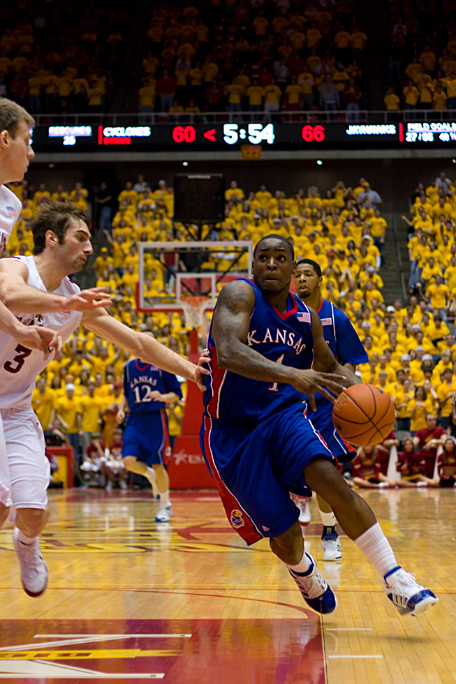 Sherron Collins for Kansas Jayhawks vs. Iowa State University on January 24, 2009.